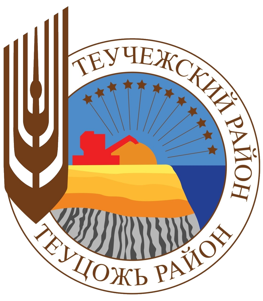 Coat of arms of Teuchezh Raion, Adygea, Russia.